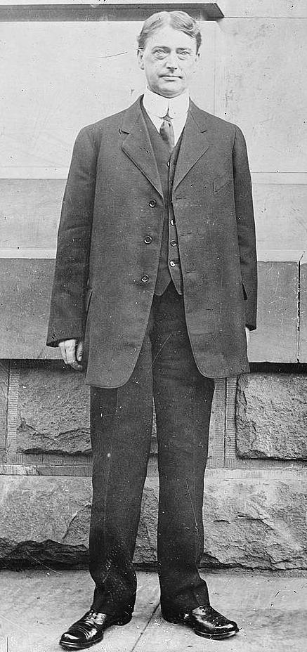 Charles L. McNary